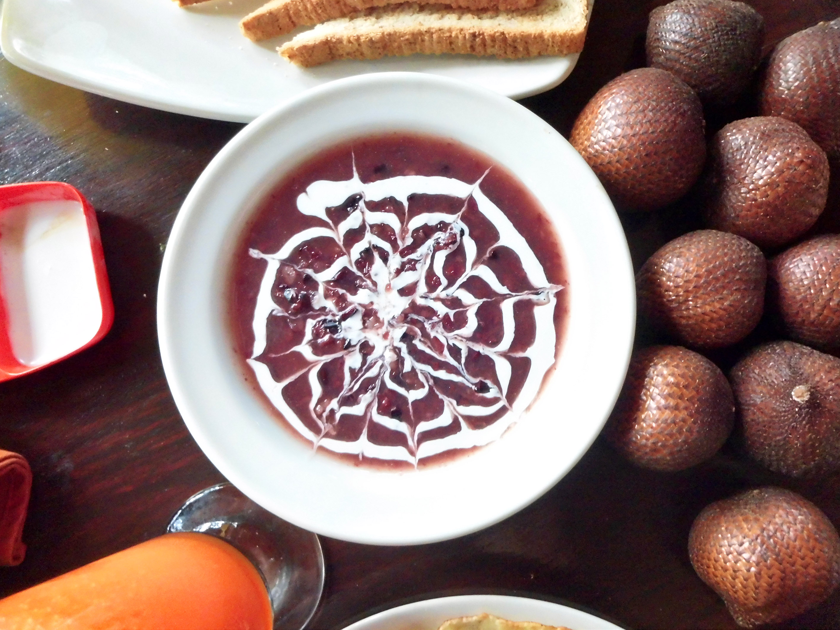 Bubur injin is Balinese version of bubur ketan hitam, or sweet black rice pudding served with coconut milk. Served as a breakfast in Gayatri Bungalows, Ubud, Bali, Indonesia.